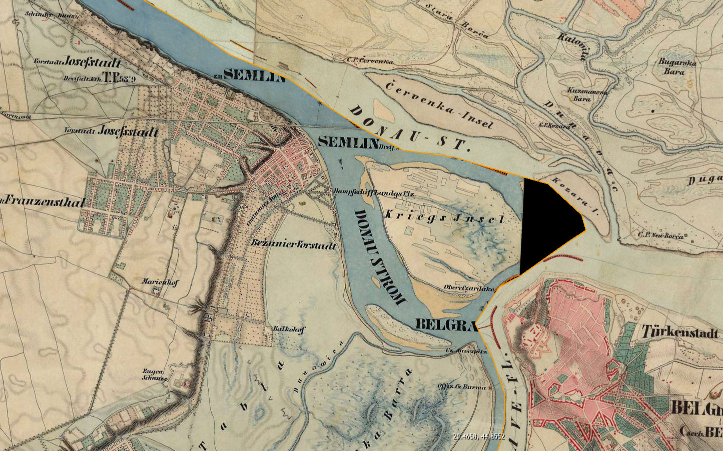 Map portion of todays Belgrade - Zemun, from the Second Military Mapping Survey of Austrian Empire (cc. 1850)